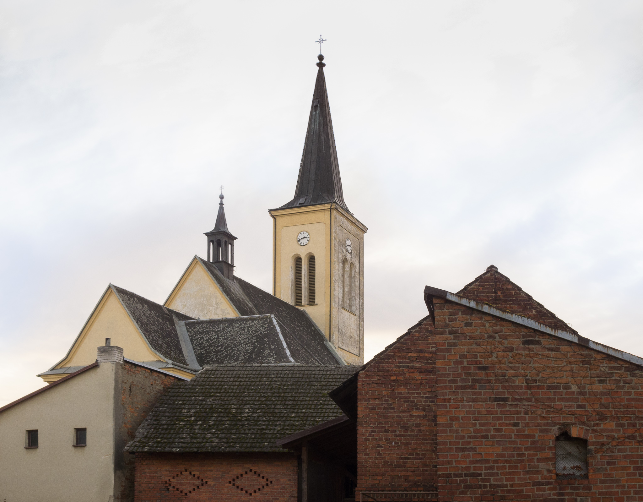 Church of st. Martin in Dolní Benešov - view from the post office.